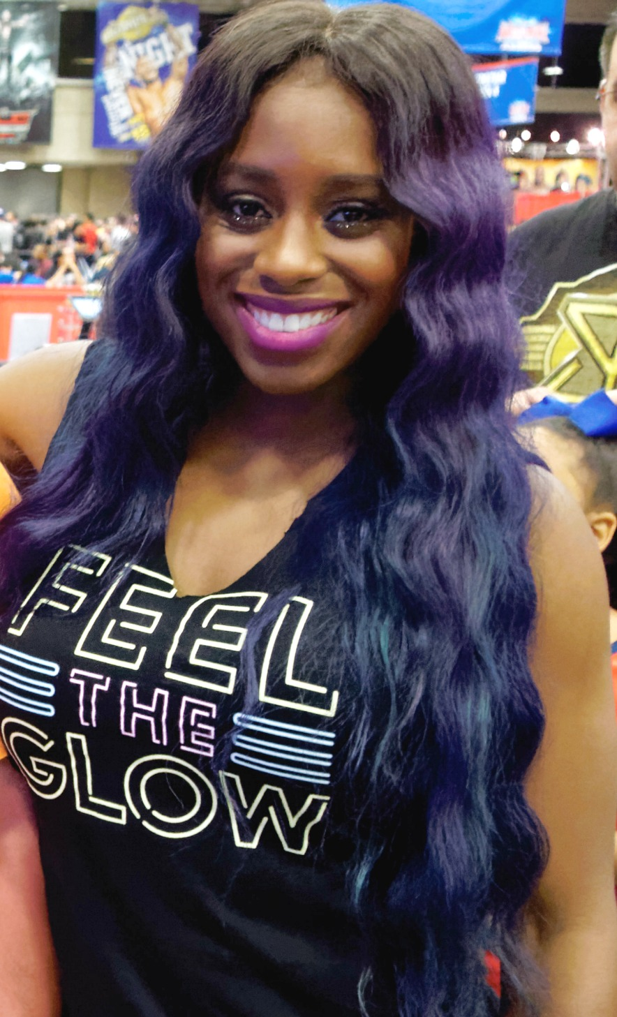 Naomi during the WrestleMania 32 Axxess in March 31, 2016.